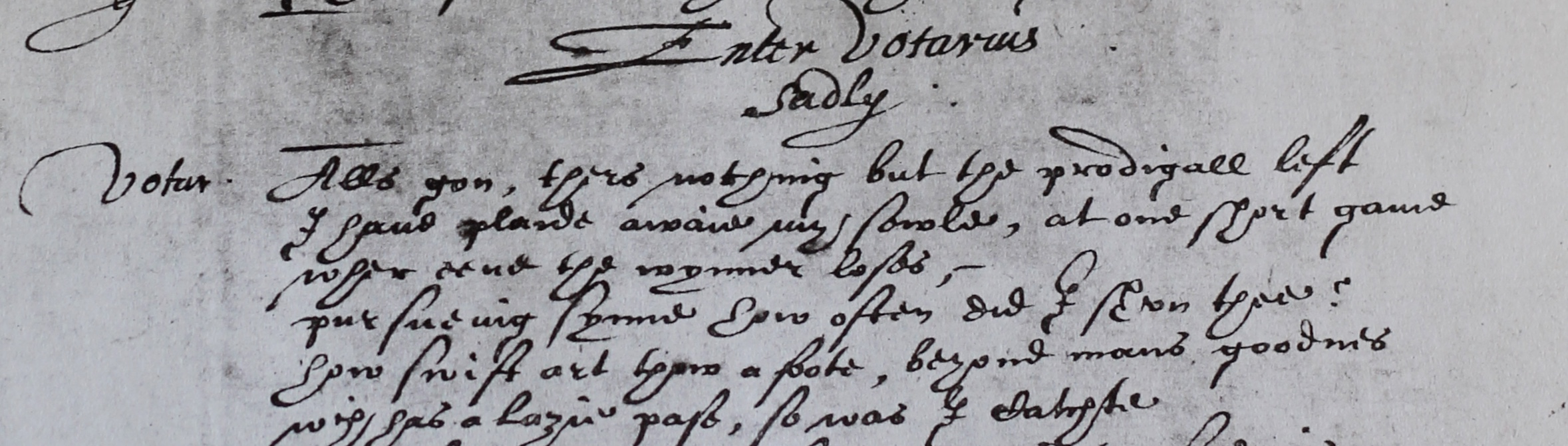 A few lines from the top of Act II, scene ii, from the manuscript of The Second Maiden's Tragedy